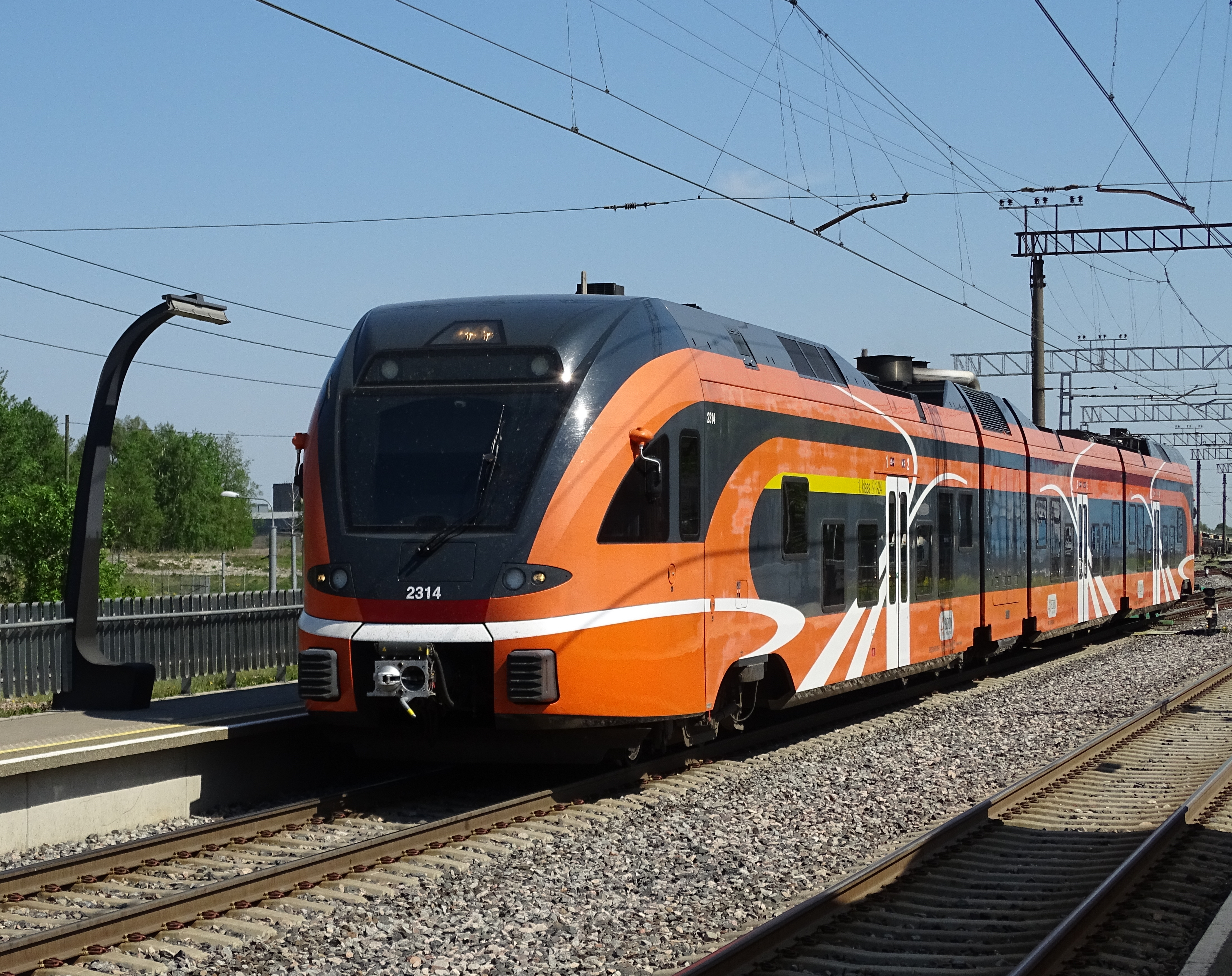 Elron Stadler Flirt DEMU 2314 in Ülemiste station, Estonia.